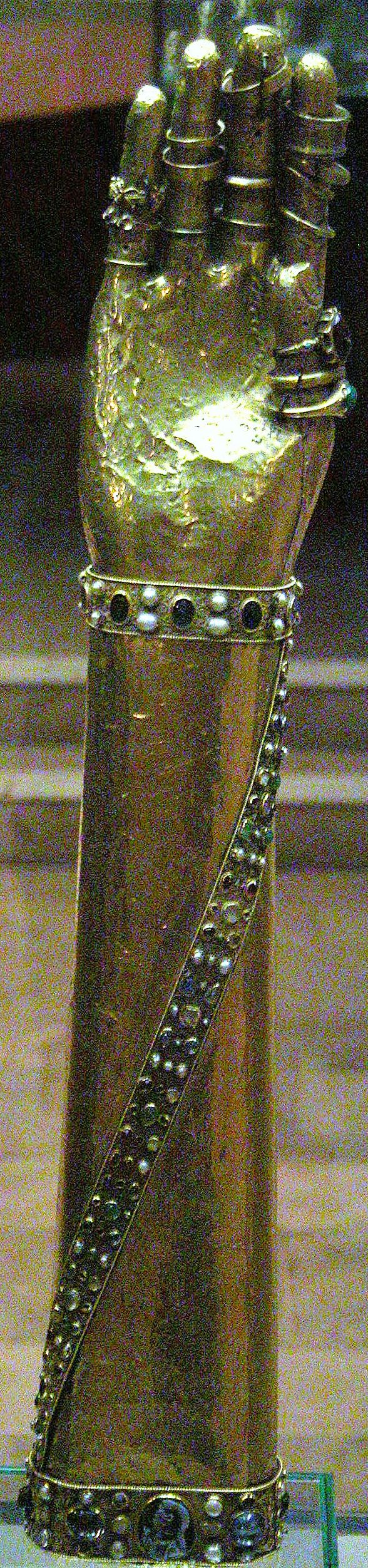 Brunswick, Germany: Front view of an arm relic of St. Blaise in Dankwarderode Castle.